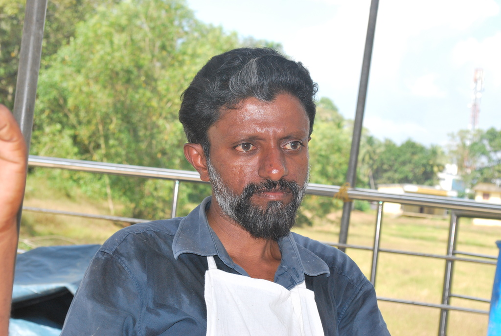 Sculptor Rajesh kumar at Lalita kala academys Sculptor camp, Kayamkulam Dec 2014